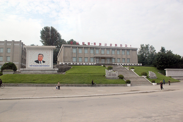 The city center of Kumya North Korea.